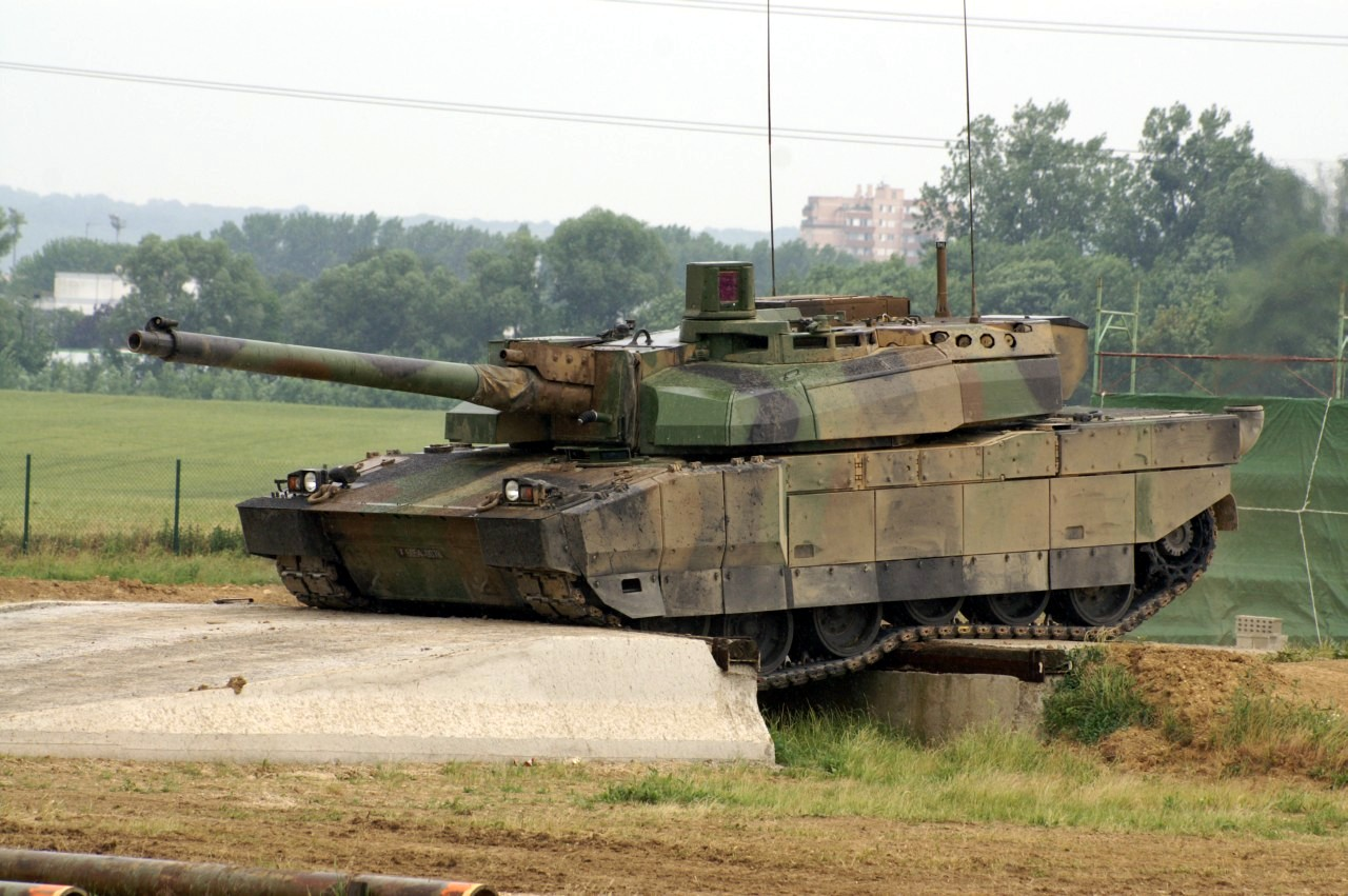 AMX-56 Nexter Leclerc driving over a gap.